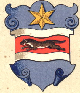 Slavonia historical coat of arms.